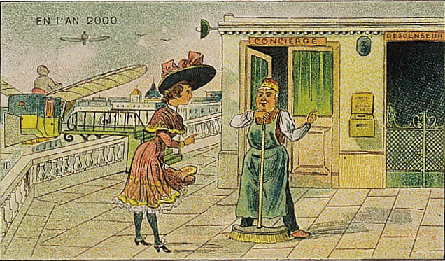 France in 2000 year (XXI century). Speak to the Caretaker. France, paper card.